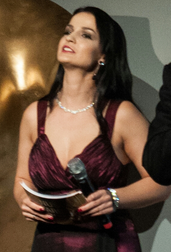 Actor Frank Kessler und VENUS Award winner Maria Mia at the ceremony of the Venus Awards 2014, Berlin